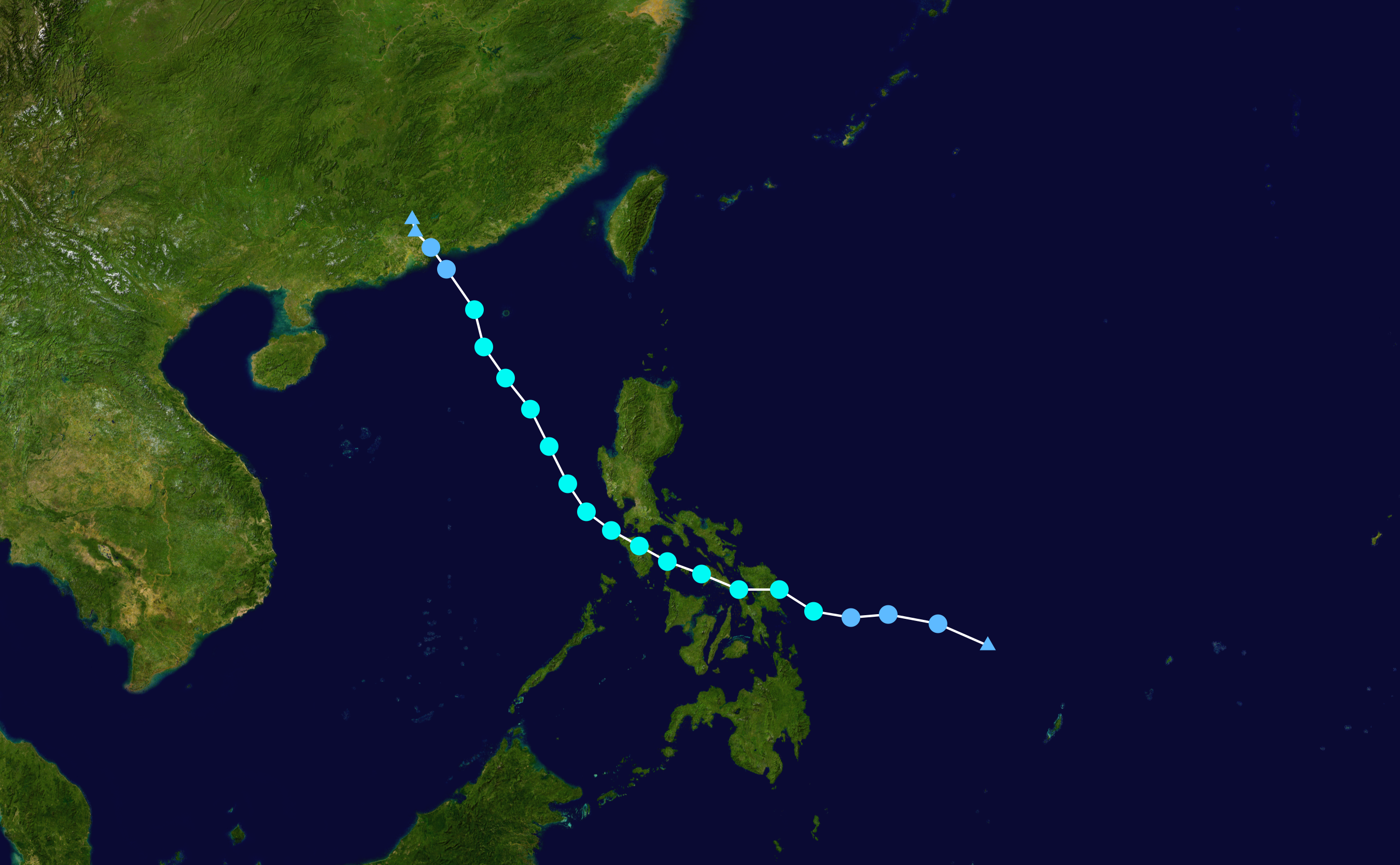 Track map of Tropical Storm Nangka of the 2009 Pacific typhoon season. The points show the location of the storm at 6-hour intervals. The colour represents the storm's maximum sustained wind speeds as classified in the Saffir–Simpson scale (see below), and the shape of the data points represent the nature of the storm, according to the legend below. Saffir–Simpson scale Tropical depression≤38 mph≤62 km/h Category 3111–129 mph178–208 km/h Tropical storm39–73 mph63–118 km/h Category 4130–156 mph209–251 km/h Category 174–95 mph119–153 km/h Category 5≥157 mph≥252 km/h Category 296–110 mph154–177 km/h Unknown Storm type Tropical cyclone Subtropical cyclone Extratropical cyclone / Remnant low / Tropical disturbance / Monsoon depression